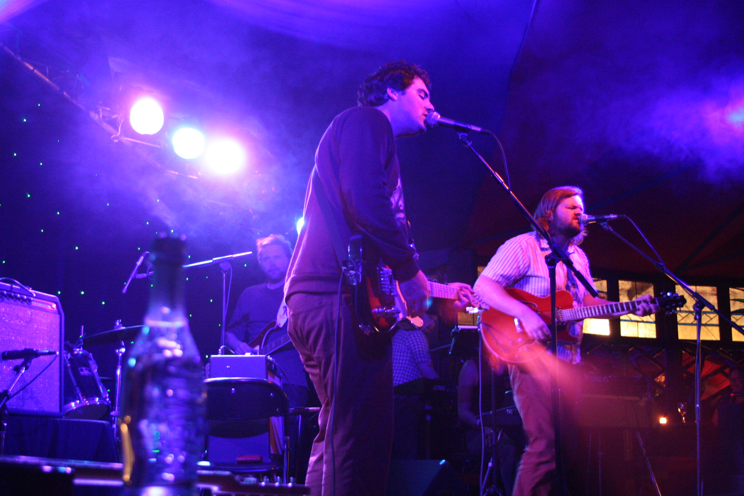 The Phoenix Foundation's gig at the Festival Club as part of the NZ Arts Festival.